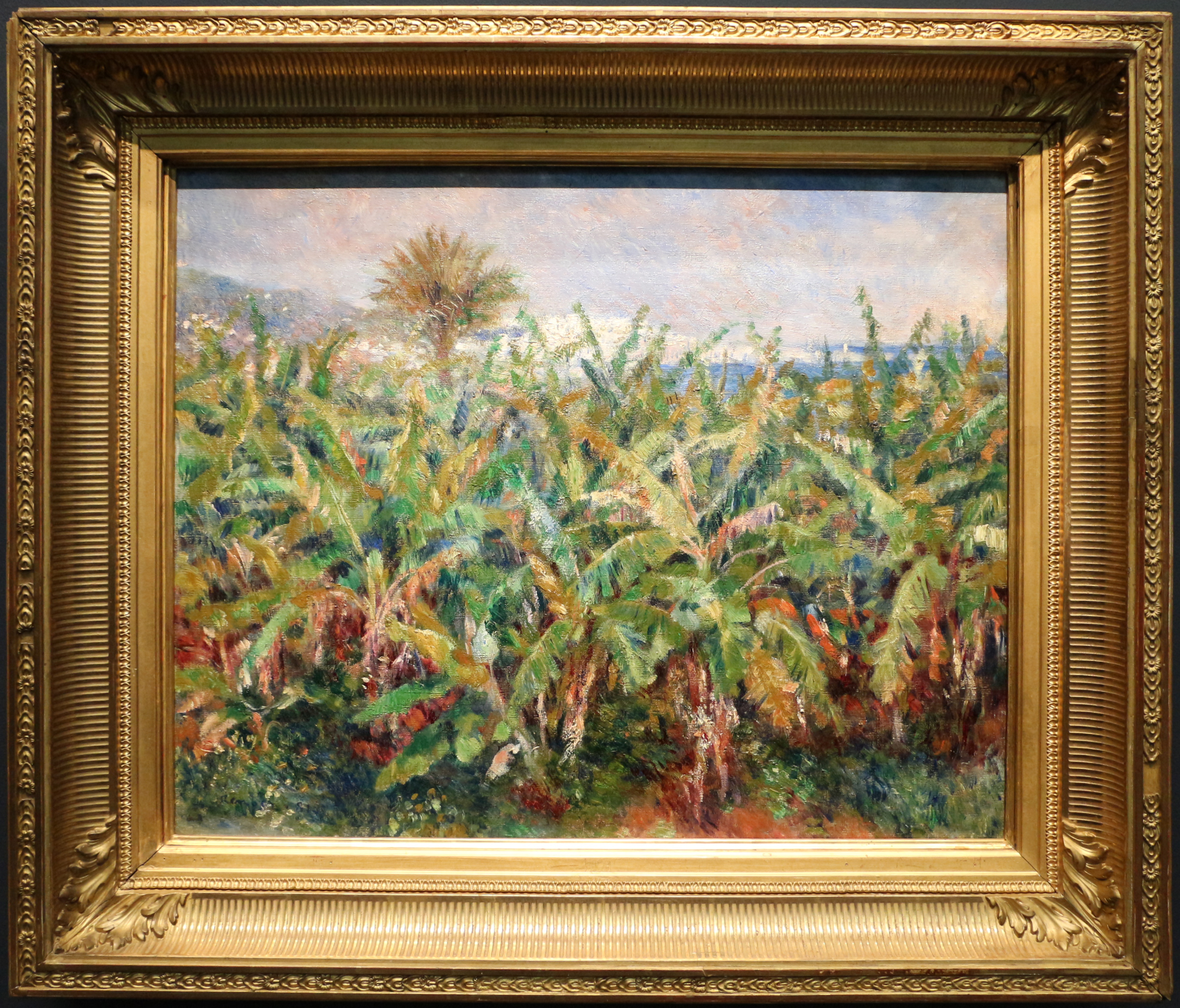 Paintings by Pierre-Auguste Renoir in the Musée d'Orsay